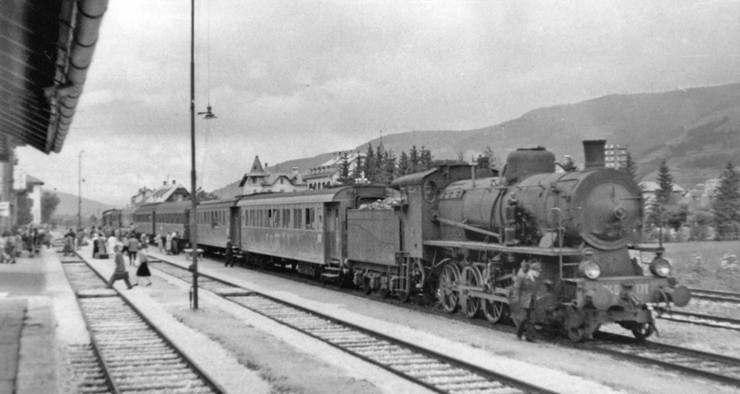 A Rome - San Candido train at Dobbiaco, hauled by a 2-8-0 (740.171), 1954.